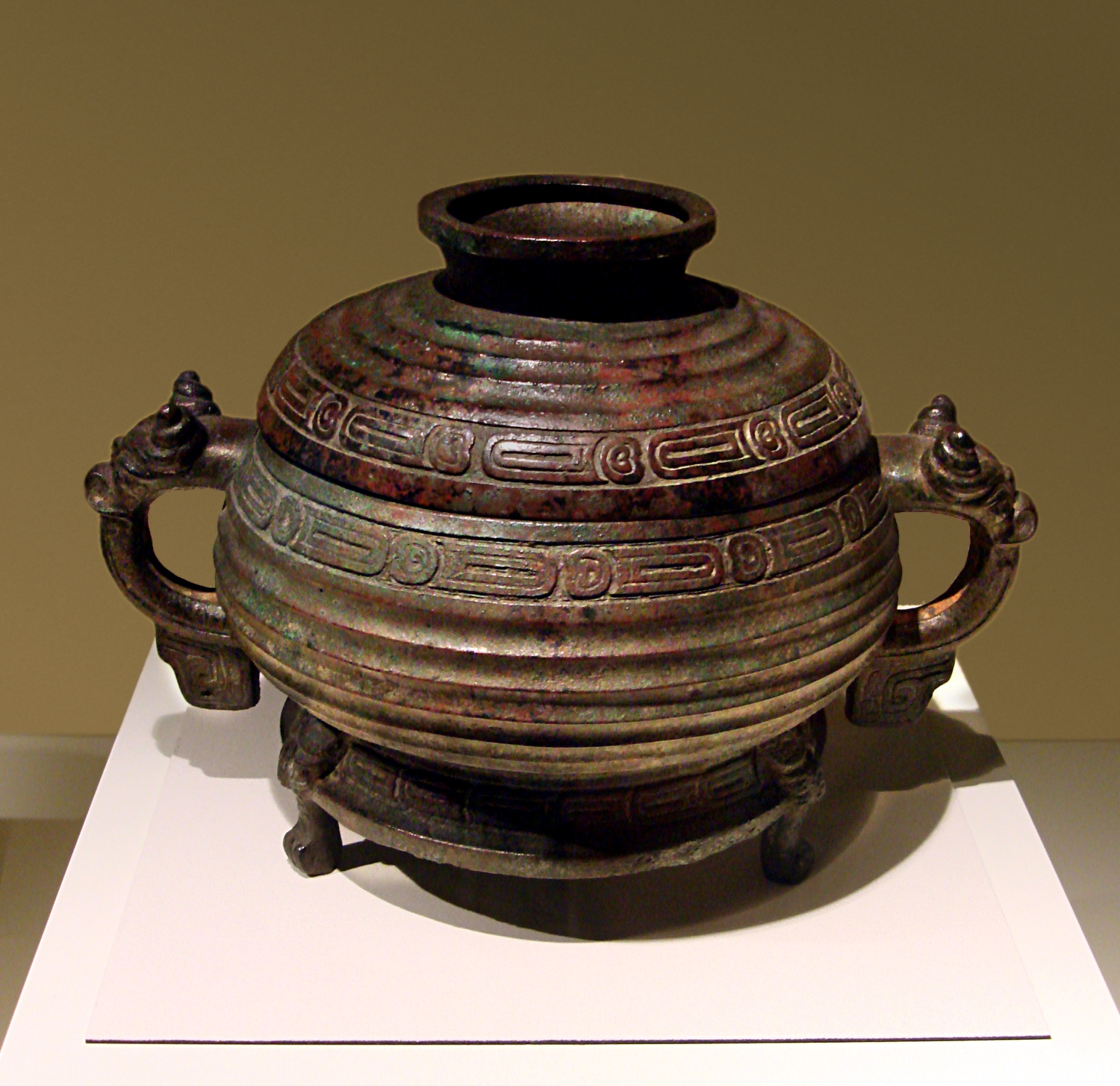 Bronze Gui of Shi You (food container). Exhibition "Treasures of China", Canadian Museum of Civilization, 2007. Western Zhou Dynasty (1046 - 771 B.C.) The lid and body of this container are both decorated with tile and ring patterns. They feature engraved inscriptions, which record that the King of Zhou gave a fifedom to Shi You, ordering that he inherit the title as well as the land and people living there.